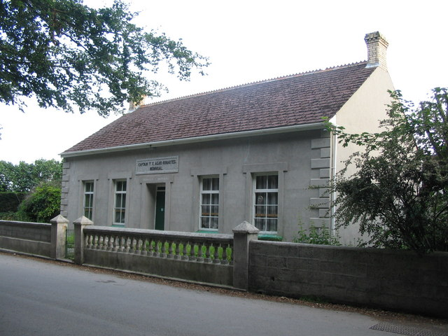 Luxulyan Institute. A view looking to the southeast towards the Luxulyan Institute.